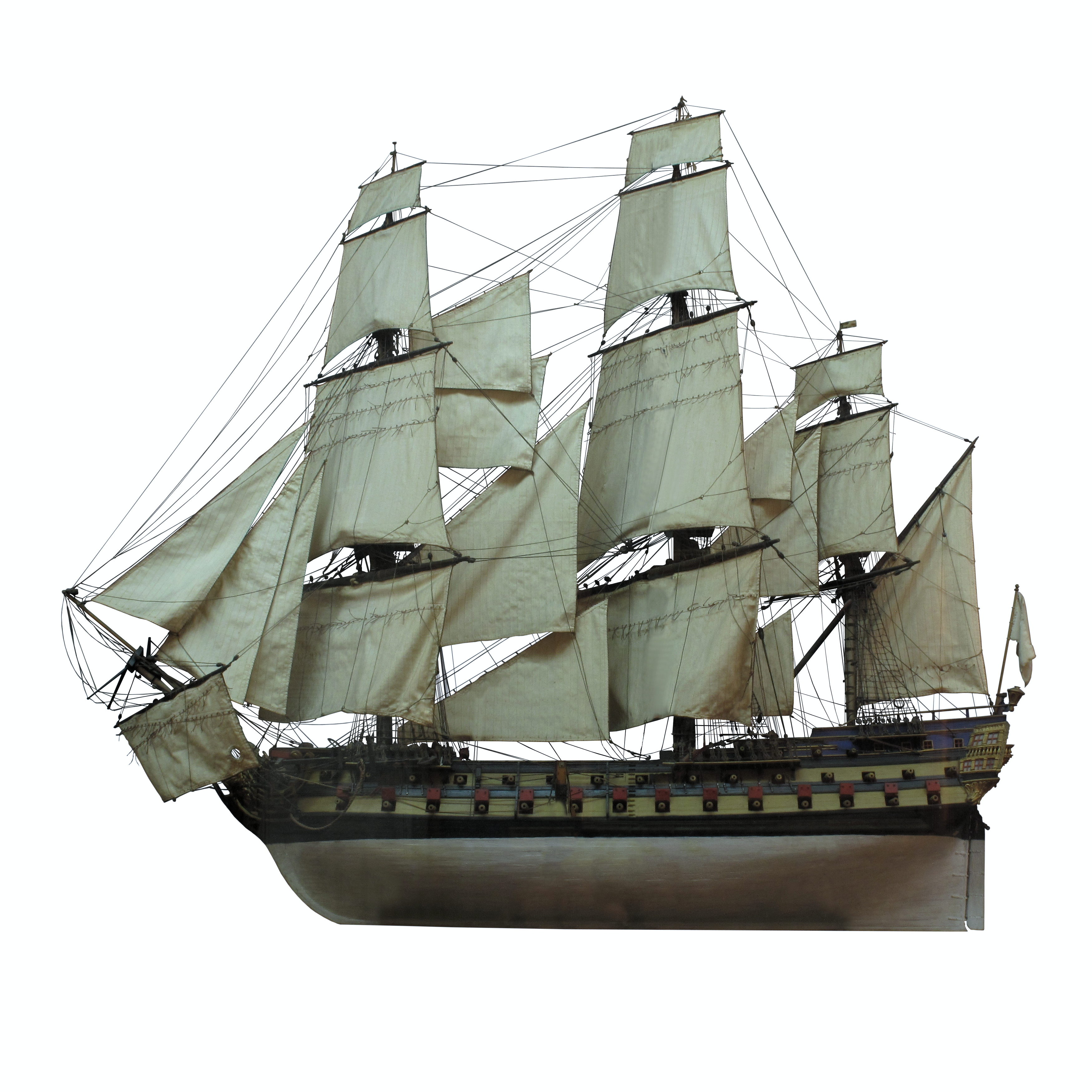 1/55 Model of Marseillois (1766), better known as Vengeur du Peuple, a name she bore later during the Revolution. On display at the Musée de la Marine et de l'Economie de Marseille.